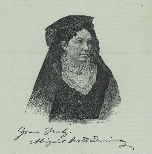 American writer and suffrage promoter Abigail Scott Duniway, with her signature under the engraving